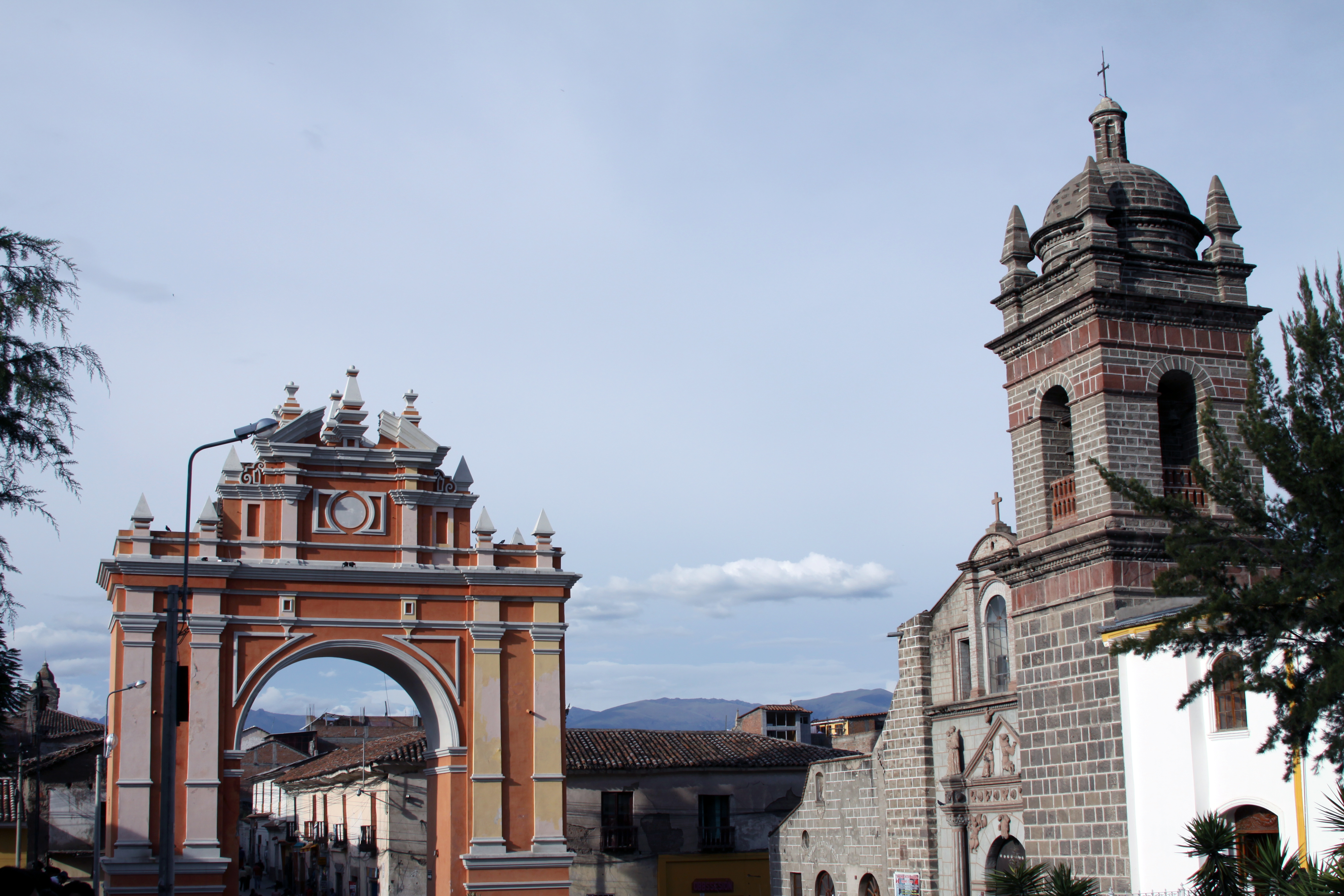 Arch and Church in Ayacucho-Peru